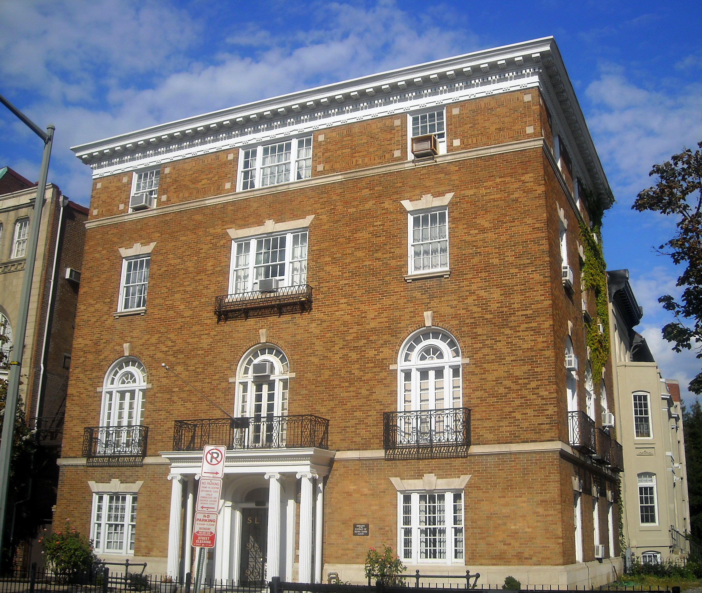 The Embassy of Sierra Leone located at 1701 19th Street, N.W., in the Dupont Circle neighborhood of Washington, D.C. Built in 1917 to the designs of noted architect Jules Henri de Sibour, the 21-room, Beaux-Arts former private residence is designated as a contributing property to the Dupont Circle Historic District, listed on the National Register of Historic Places in 1978. Former occupants include U.S. Senator Frank B. Kellogg, Assistant Secretary of State Joseph P. Cotton, philanthropist and diplomat Myron C. Taylor, and the United Nations Club.